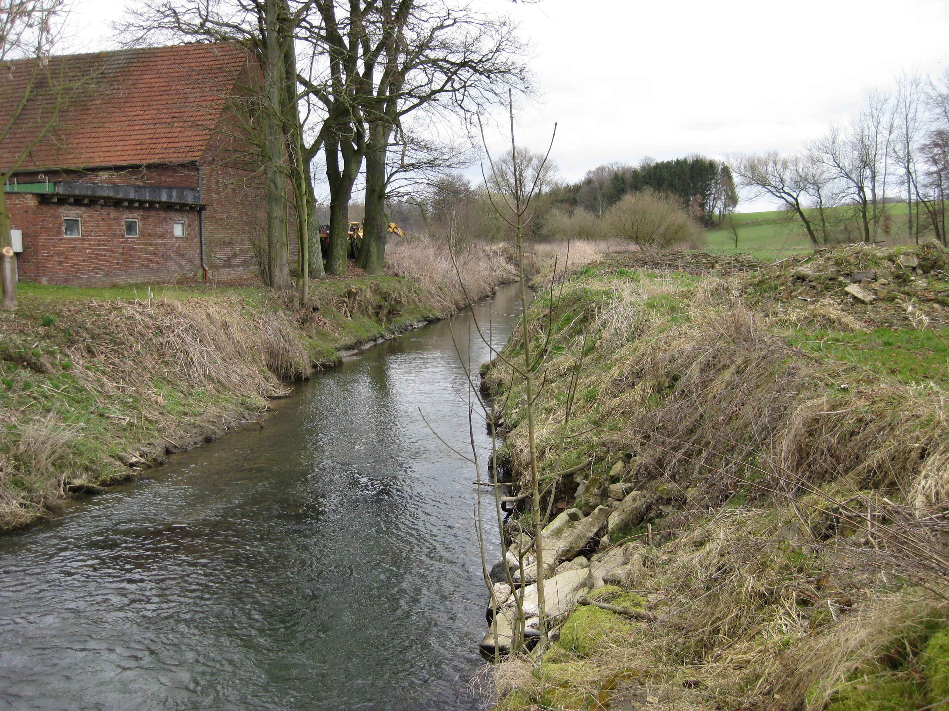 Warmenau in Spenge at the Martmühle (Mühle = Mill), the creek marks the border between North Rhine-Westphalia (right) and Lower Saxony (left) here